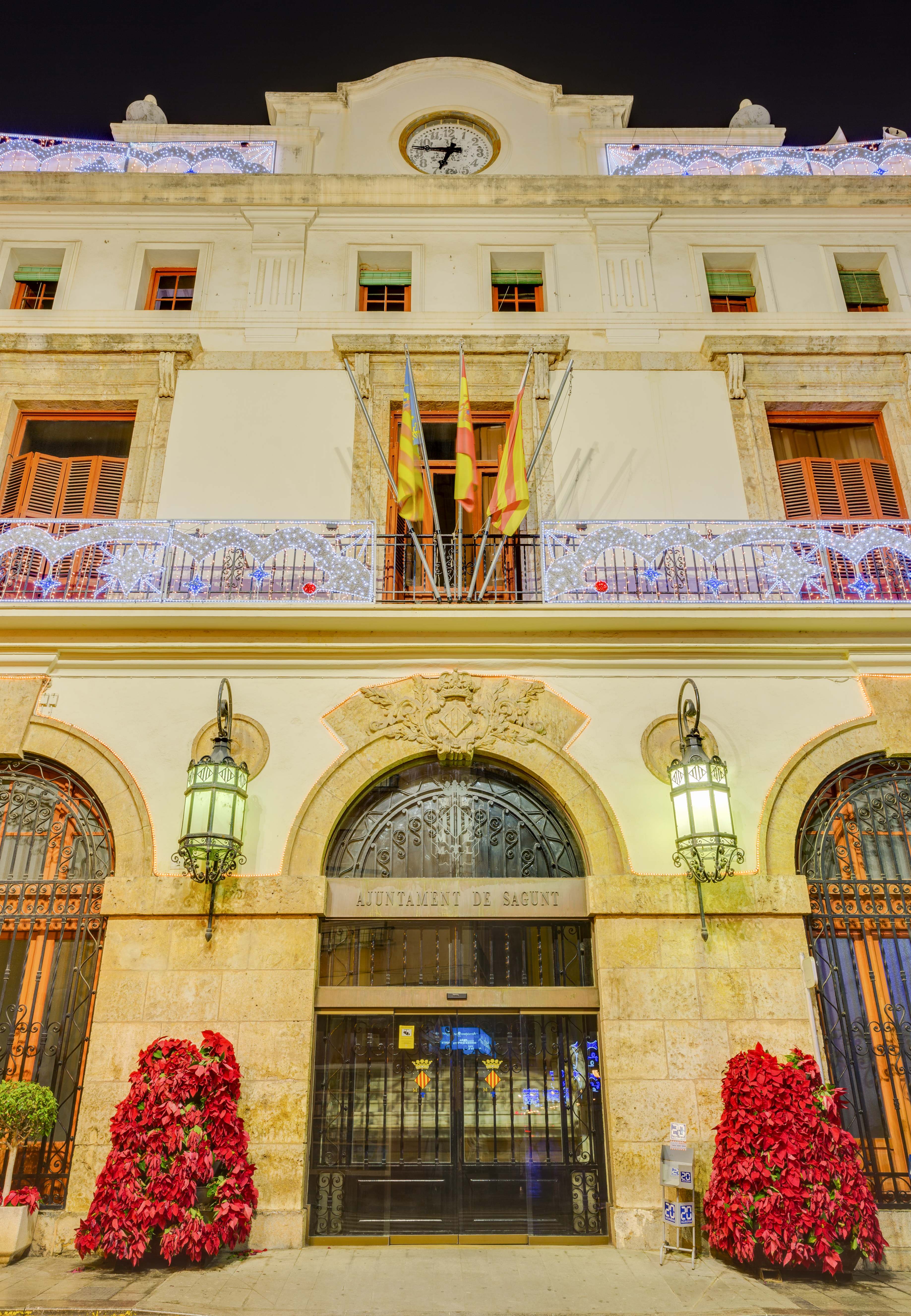 City hall of Sagunto, España